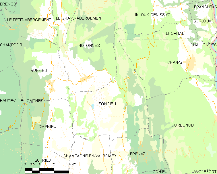 Map of French commune: Songieu Map commune FR insee code 01409.png